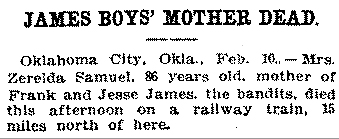 Zeralda James in the Washington Post on February 11, 1911.